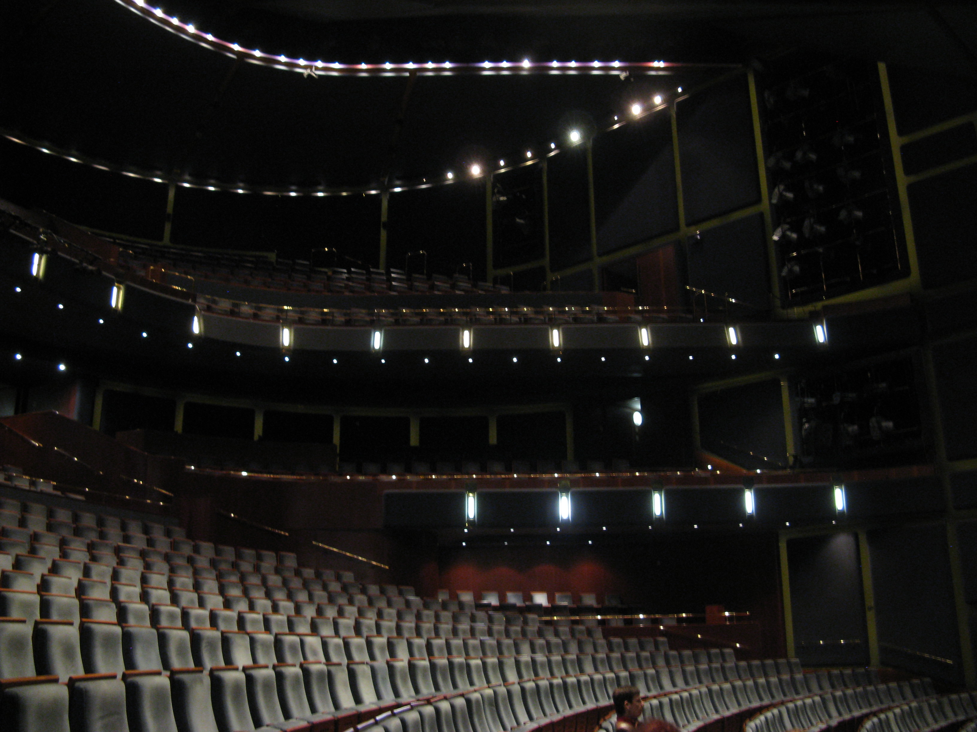 The Tel Aviv performing arts centre.